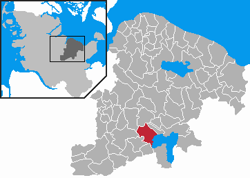 This map shows the area of the Gemeinde (municipality) Ascheberg in the Kreis (district) Plön, Schleswig-Holstein, Germany.